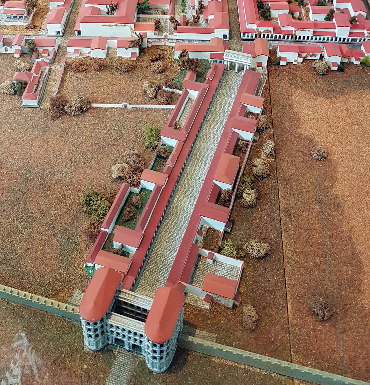 Detail of a scale model of the Roman city of Trier (Augusta Treverorum) in the collection of Rheinisches Landesmuseum Trier, Germany. In the foreground the northern city gate Porta Nigra. At the end of the street the triumphal arch.